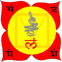 muladhara